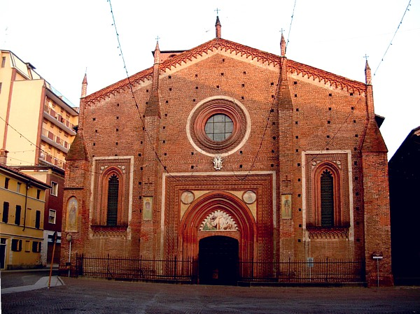 Chiesa San Lorenzo di Mortara picture taken by user:Idéfix, 15/01/2006